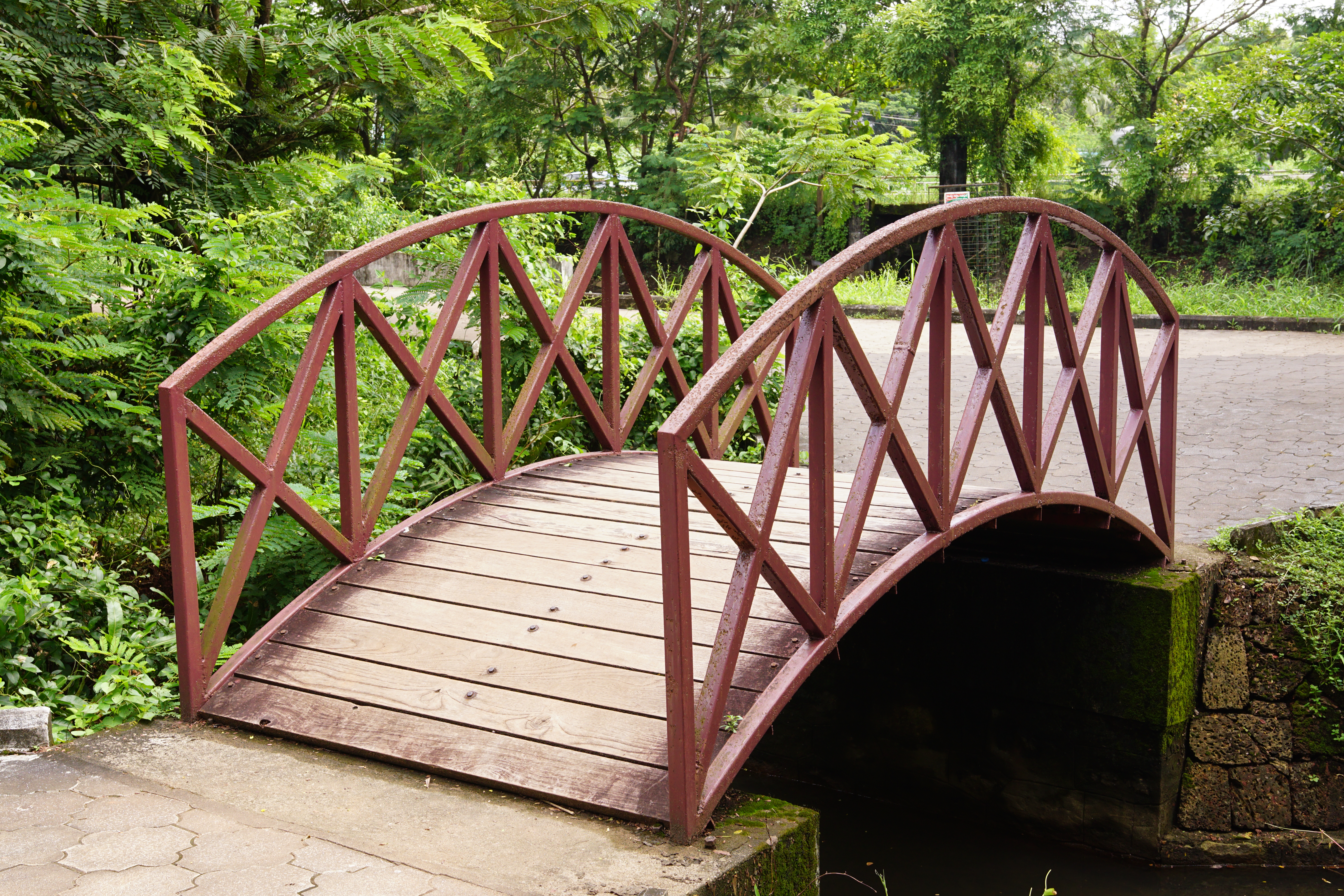 Sarovaram